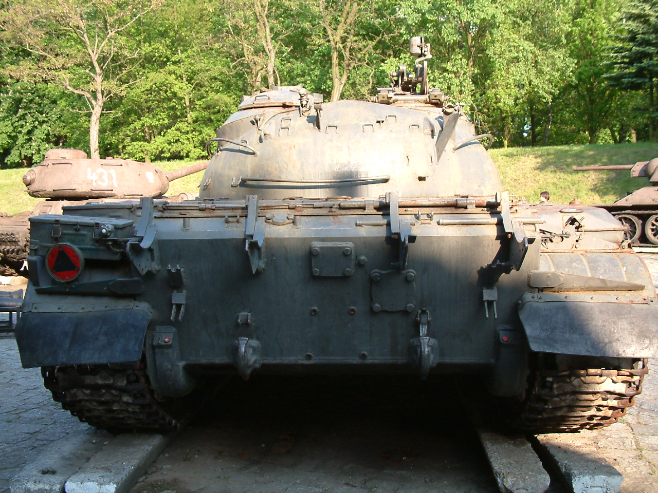 T-55 tank at the Museum of armament in Poznań, detail